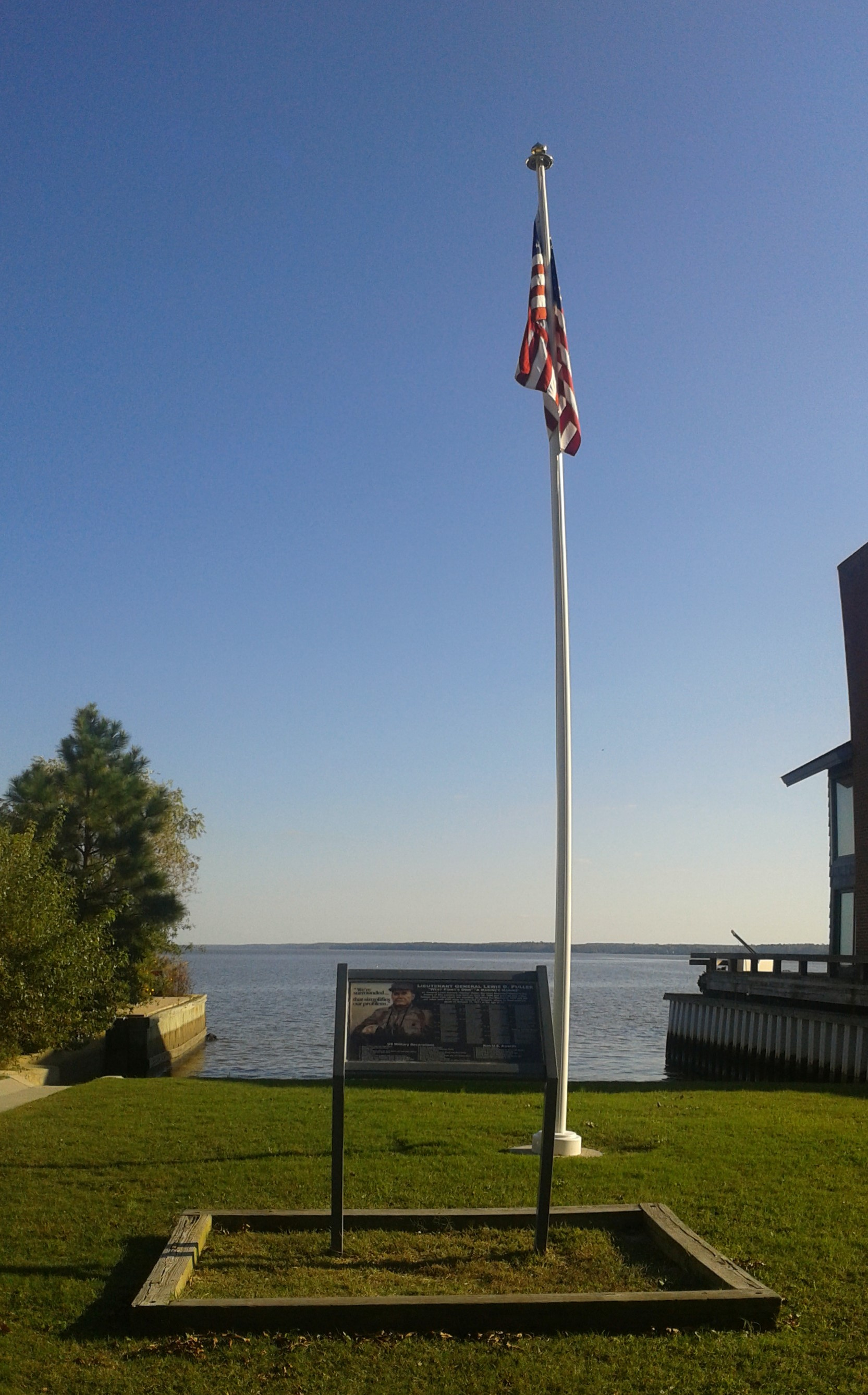 West Point, Virginia. Taken by me in October, 2016 Stitched from pictures taken by me in October, 2016